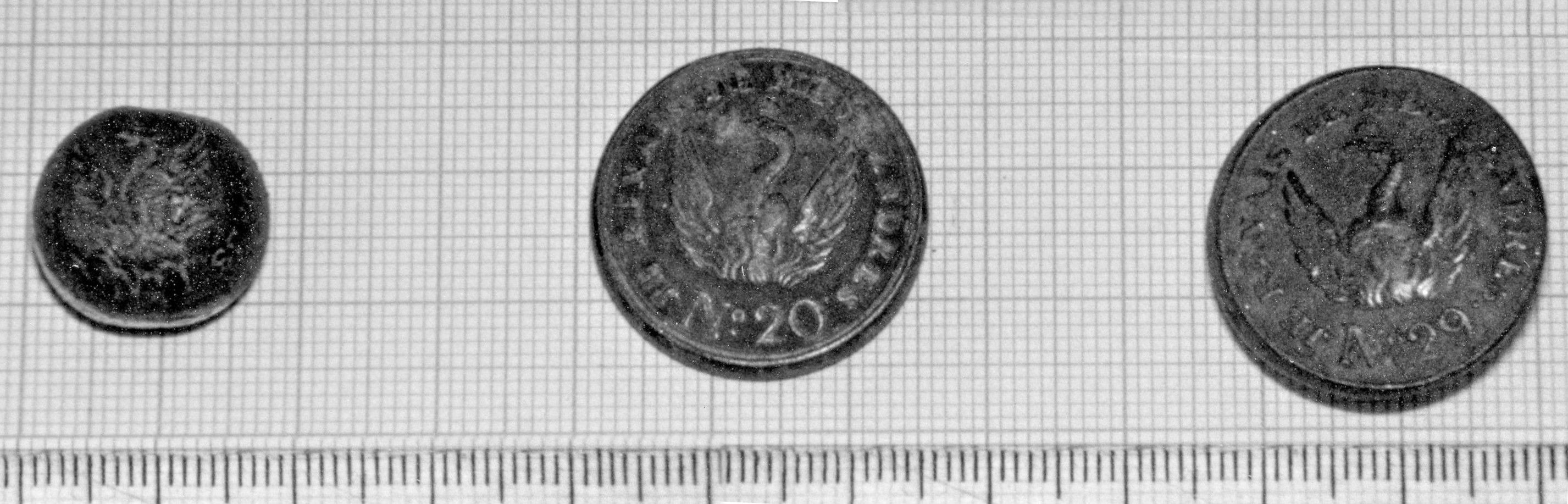 three phoenix buttons from excavations 1981-84 Santa Cruz Mission Lost Adobe.